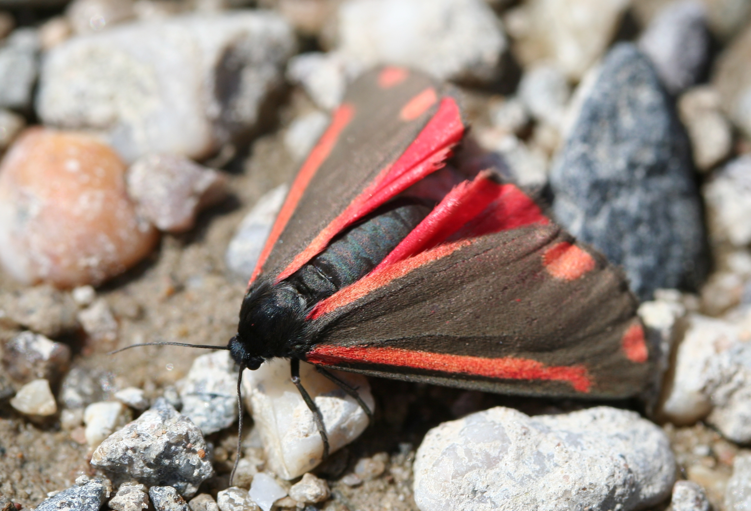 Tyria jacobaeae 21 May 2006 IJmuiden, the Netherlands